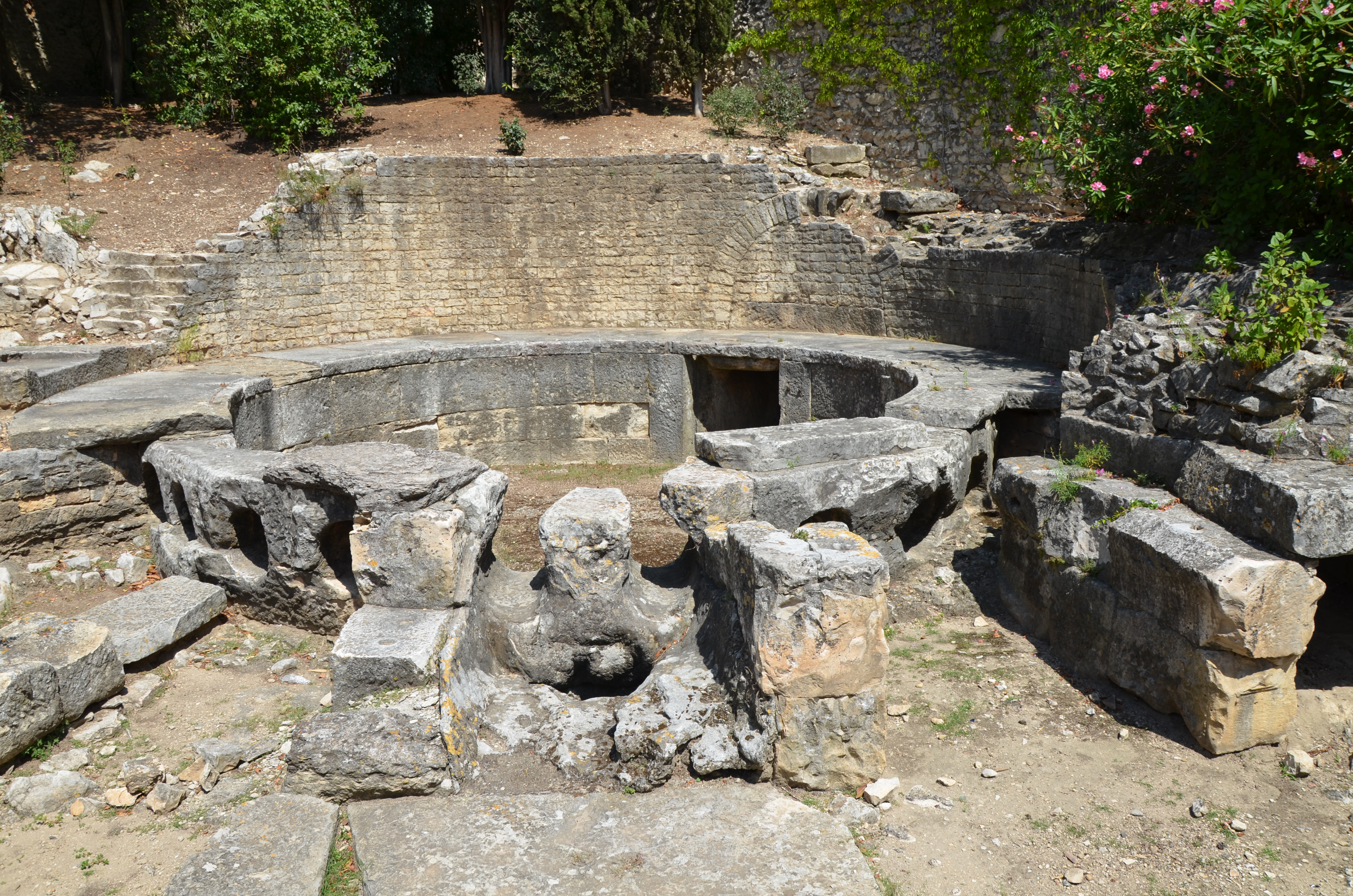 Castellum divisorium of Nemausus, Nîmes